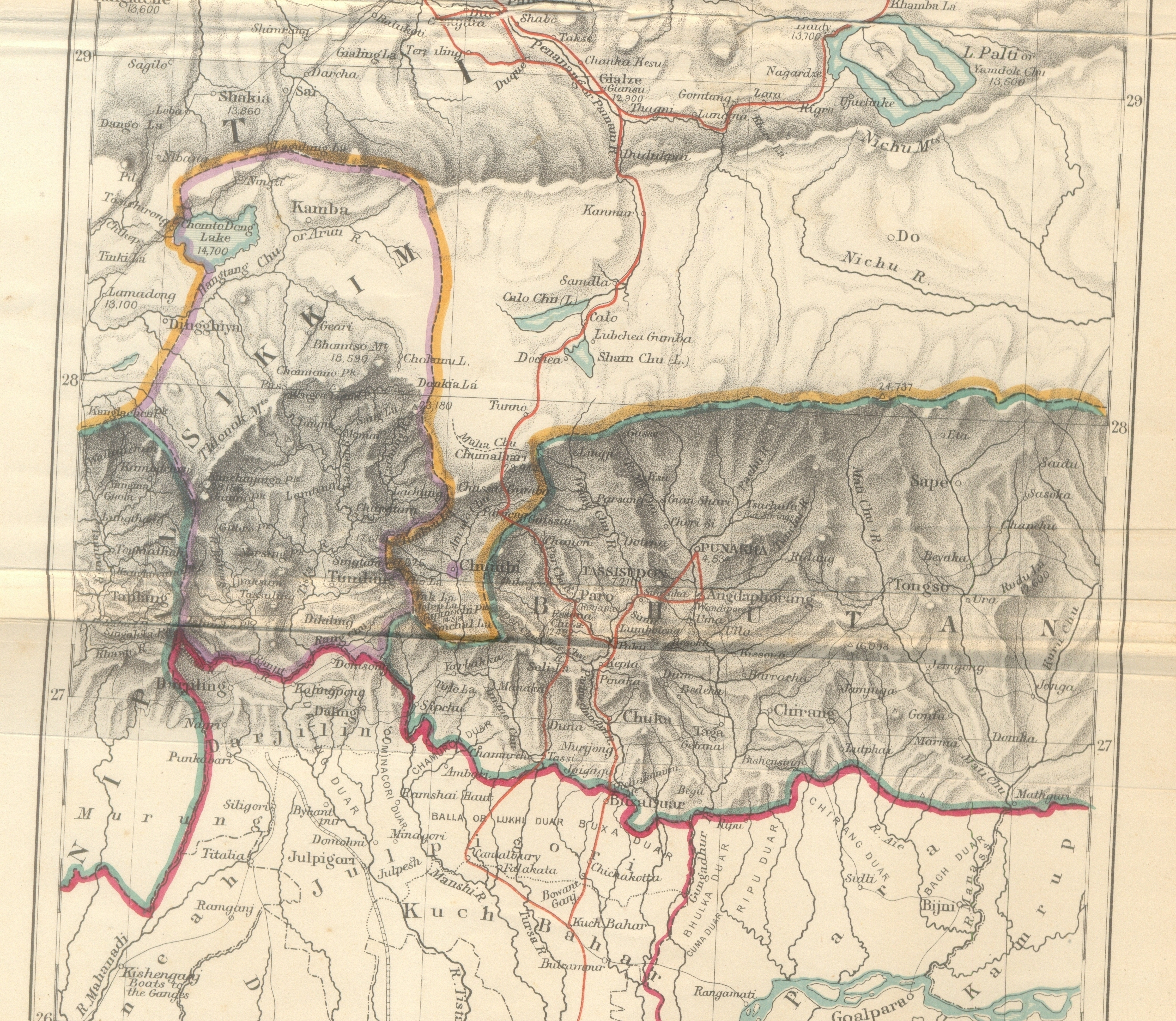 Historical Map of Sikkim in northeastern India extracted from map prepared by Trelawney Saunders, 1876, titled "The routes of Bogle, Turner and Manning between Bengal and Tibet" and published in the book, Narratives of the Mission of George Bogle to Tibet, and of the Journey of Thomas Manning to Lhasa, by Clements R. Markham, C.B., F.R.S. Geographical Department, India Office. Published by London: Trübner and Co., Ludgate Hill. 1876.